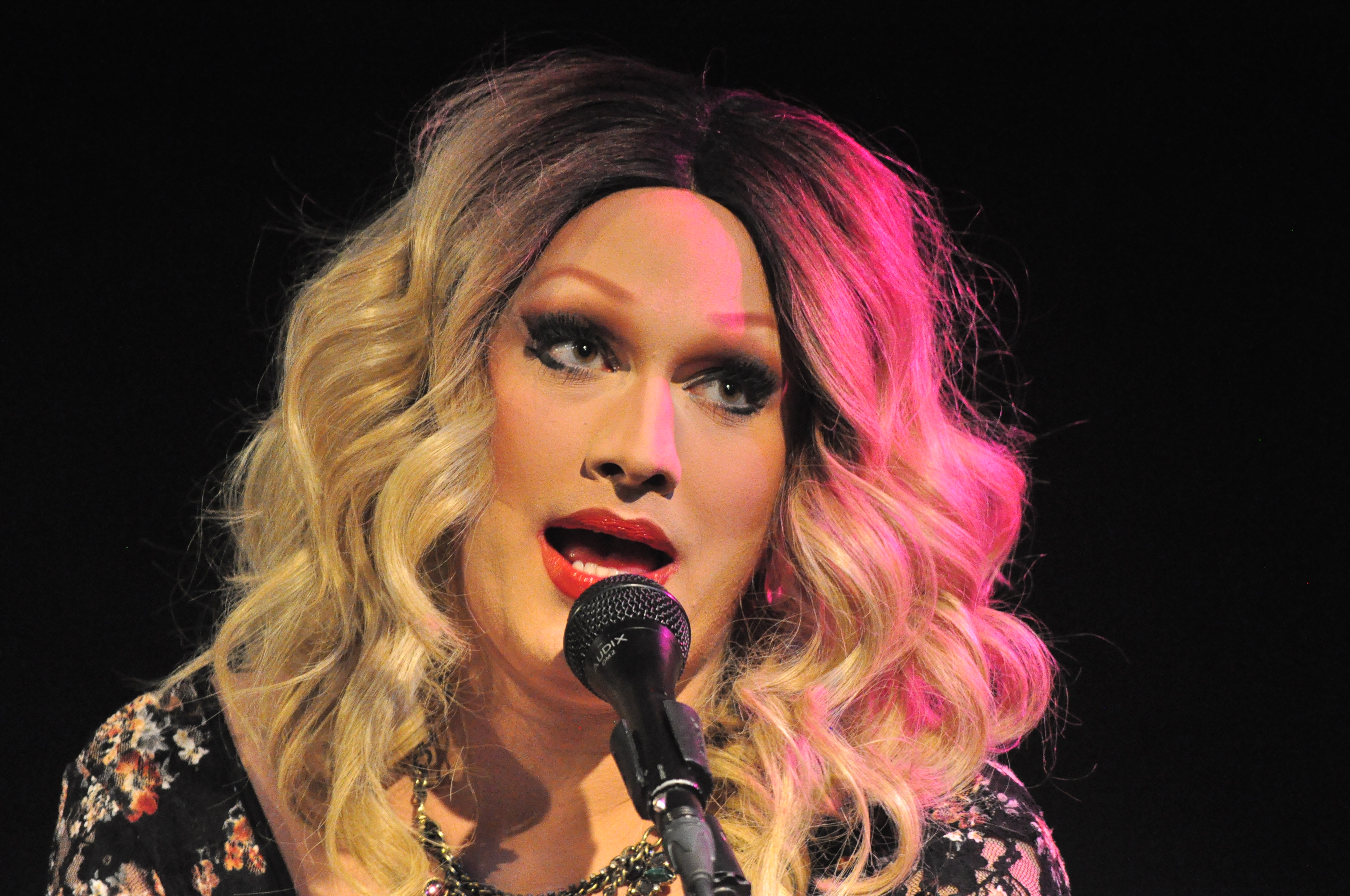 Jinkx Monsoon "roasting" departing Stranger editor and reporter Dominic Holden (not shown) at the Re-Bar, Seattle, Washington, November 1, 2014. Roasters included prominent city and county officials, past and present Stranger staff, and people from the Seattle theater community.